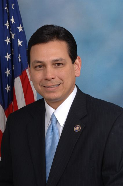 Steve Austria, member of the United States House of Representatives.